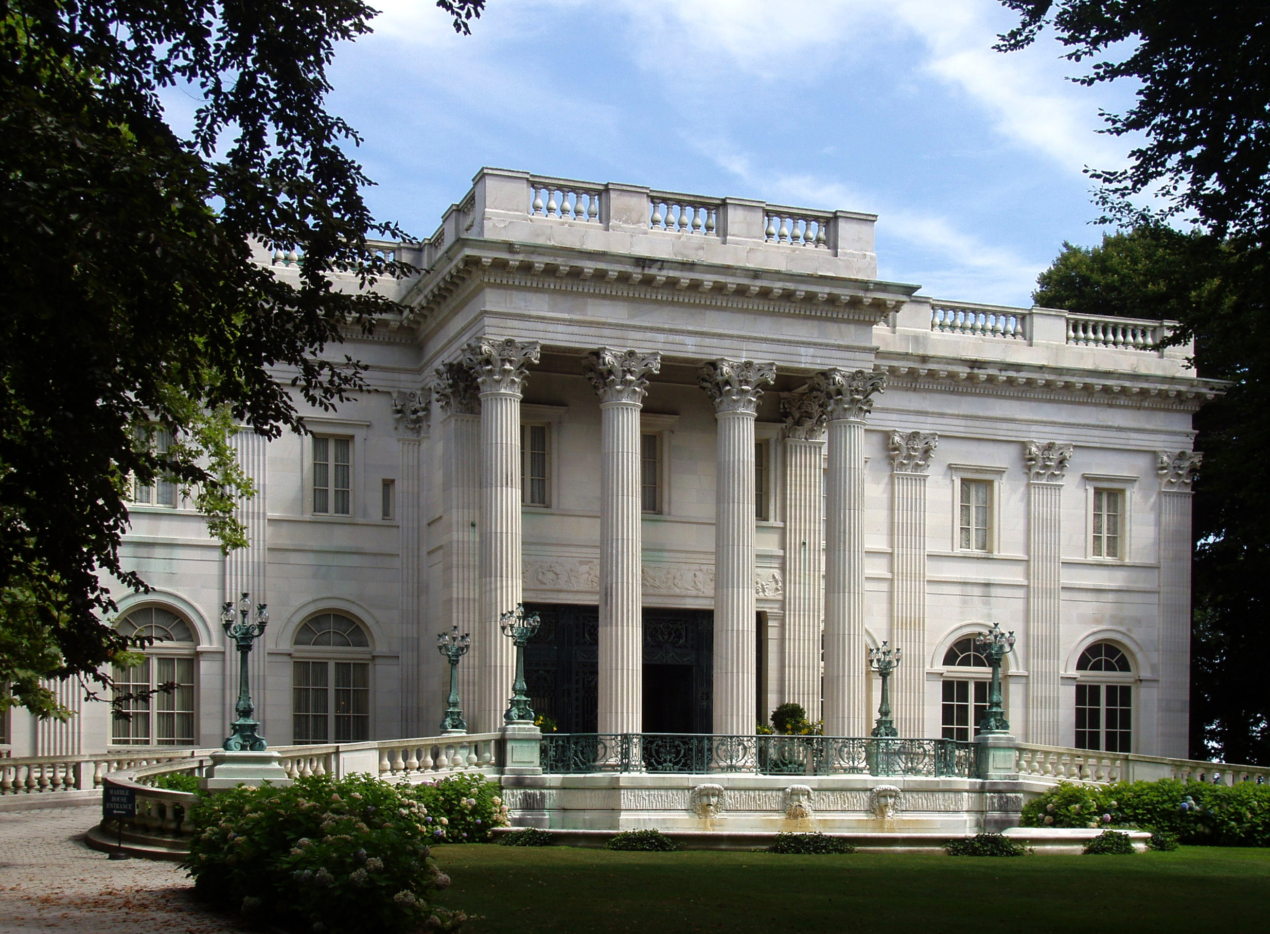 Marble House, Newport, Rhode Island